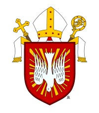 Coat of arms of Hradec Králové Diocese, Czech Republic